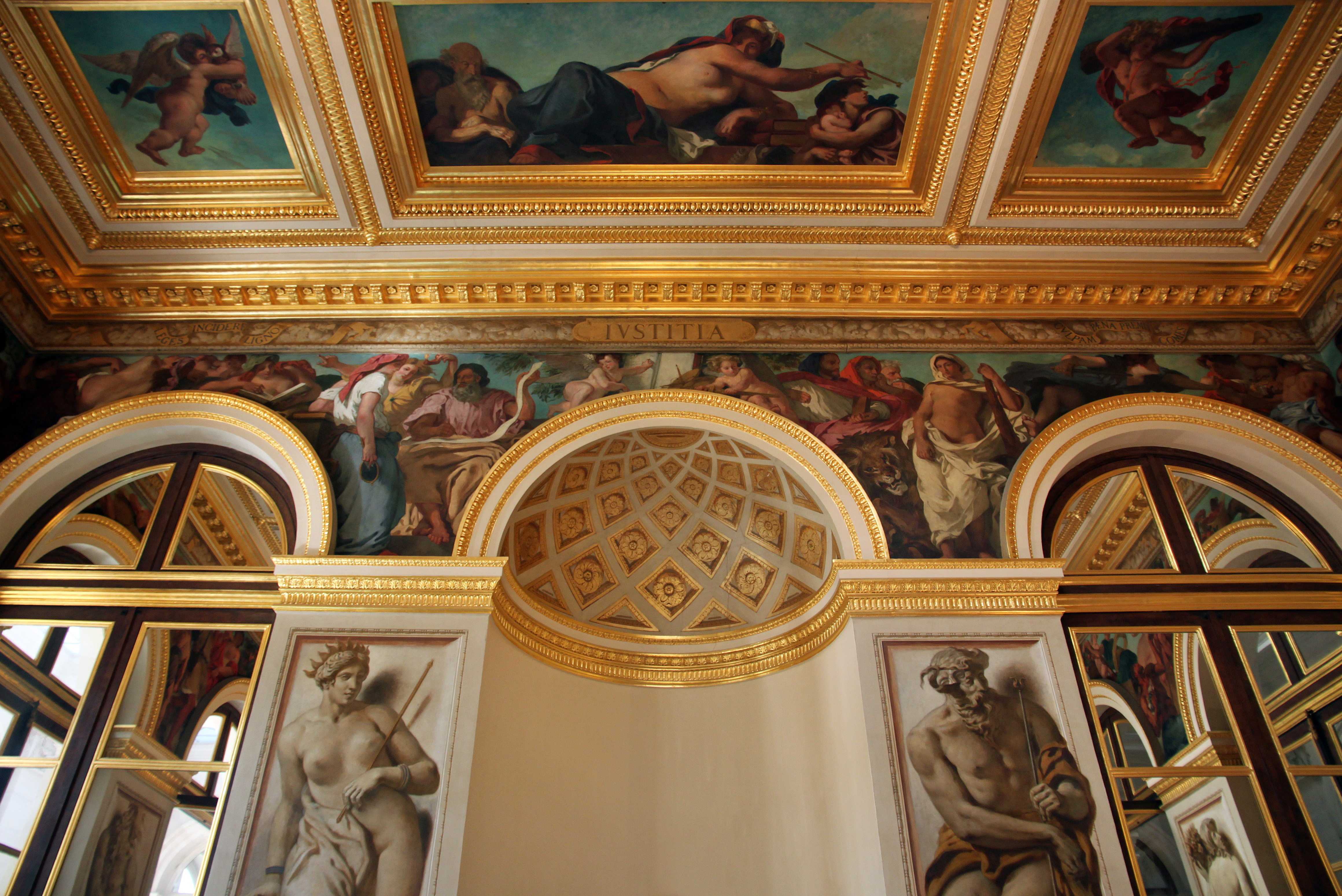 Les forces vives de l'Etat : la Justice. Detail from the King's room in the Palais Bourbon, painted by Eugène Delacroix (1798-1863) between 1833 and 1838.